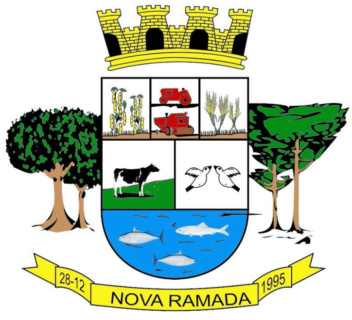 Coat of arms of the city of Nova Ramada, Rio Grande do Sul, Brazil.